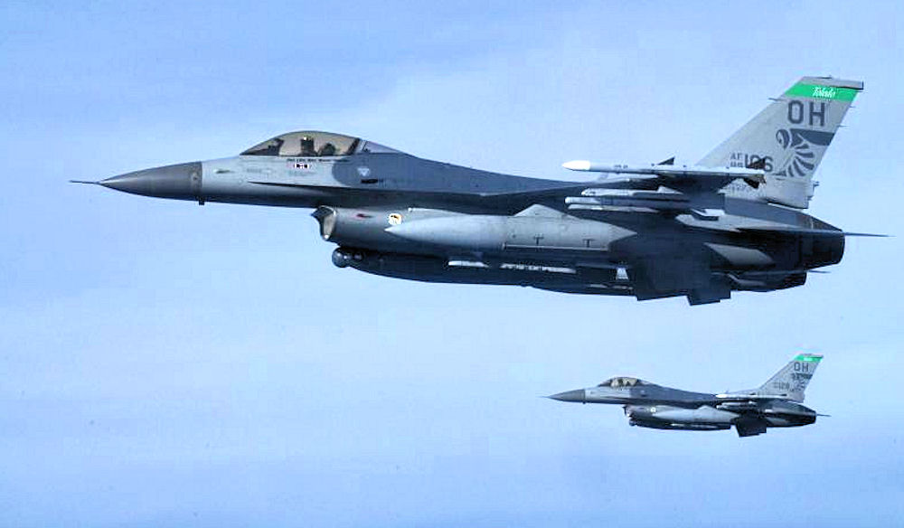 USAF F-16C block 42s #89-2106 & #89-2128 from the 112th FS fly over Southern Ohio on October 29th, 2009. [USAF photo by A1C Amber Williams]